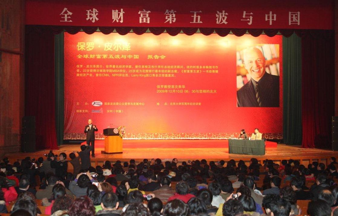 Professor Pilzer was the Official Guest of the People's Republic of China in December 2009. More than 3,500 students competed writing essays to attend his lectures.